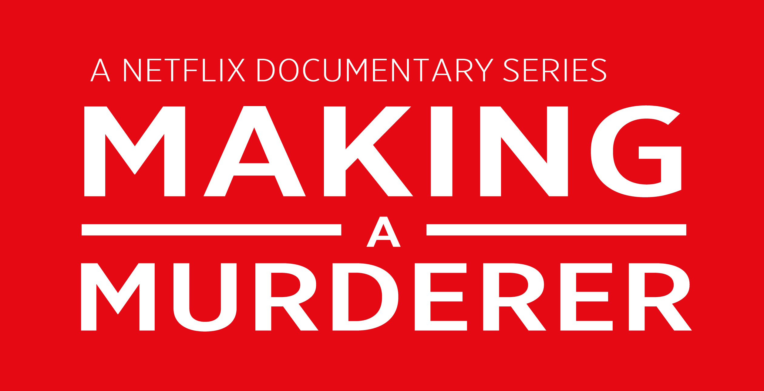 Logo Netflix documentary series, Making a Murderer of the year 2015.